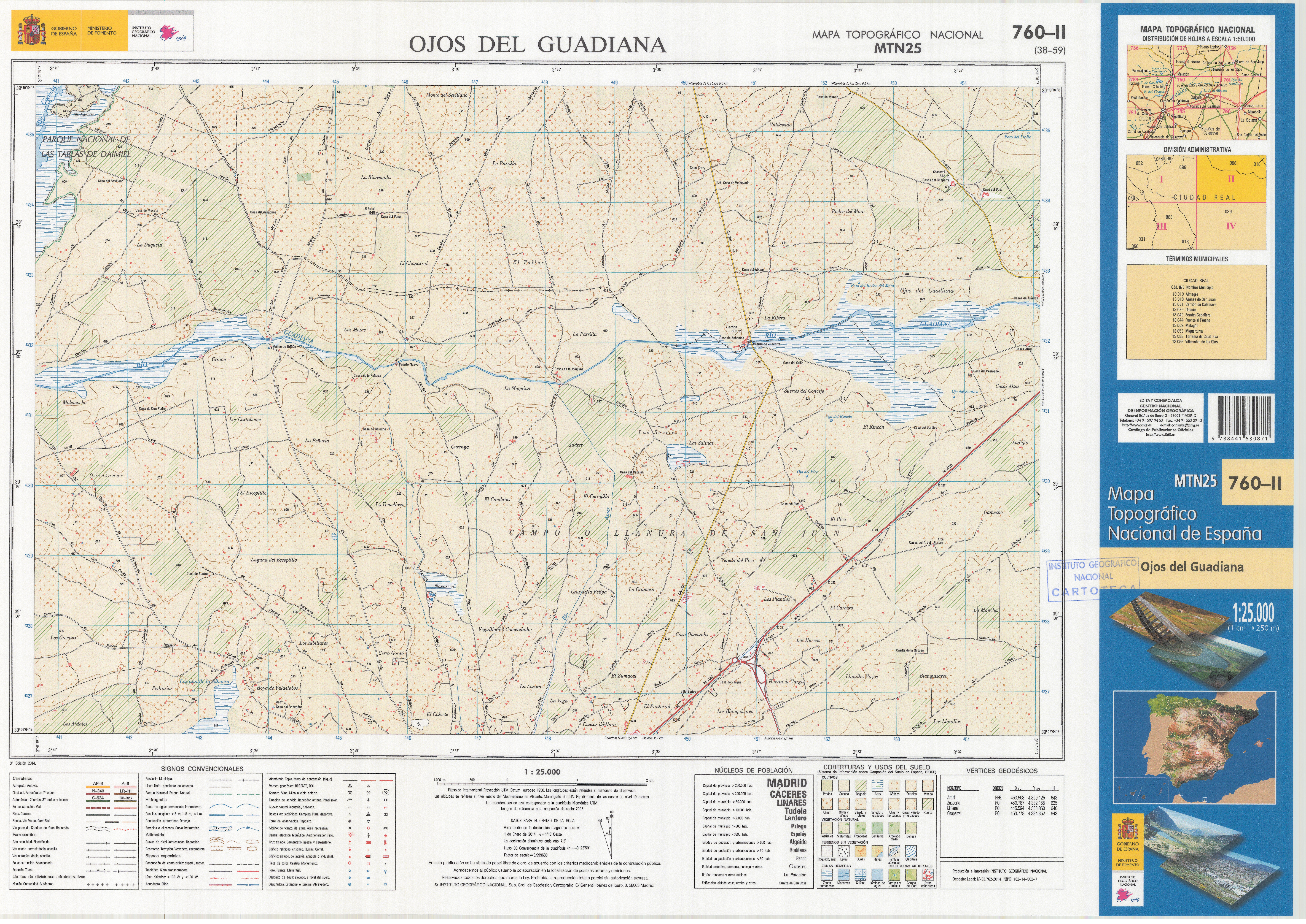 Fragment 0760c2 of the National Topographic Map of Spain in 2014 at a scale of 1:25000 printed and scanned with a resolution of 250 ppi. It shows Ojos del Guadiana.